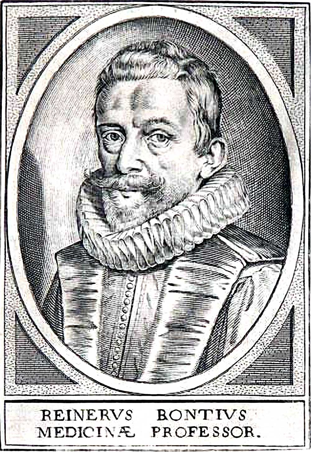 Reinier Bontius or Regnerus de Bondt (1576-1623) Dutch physician